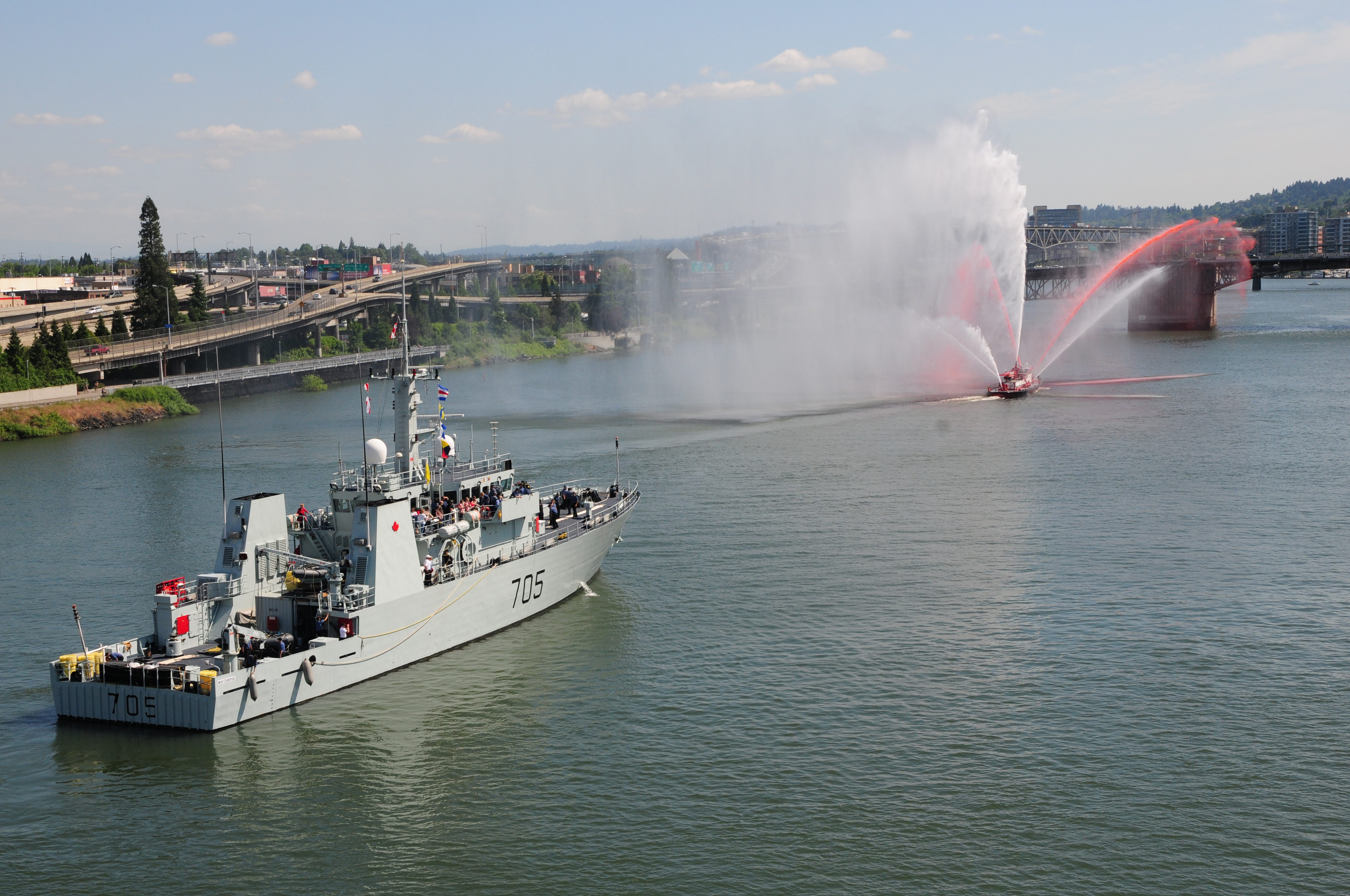 PORTLAND, Ore. (June 9, 2011) Canadian coastal defence vessel HMCS Whitehorse (MM 705) arrives in Portland, Ore., to participate in Portland Fleet Week festivities during the city's 104th annual Rose Festival. Navy Weeks are designed to show Americans the investment they have made in their Navy, A Global Force for Good, and increase awareness in cities that do not have a significant Navy presence. (U.S. Navy photo by Chief Mass Communication Specialist Terry L. Feeney/Released)